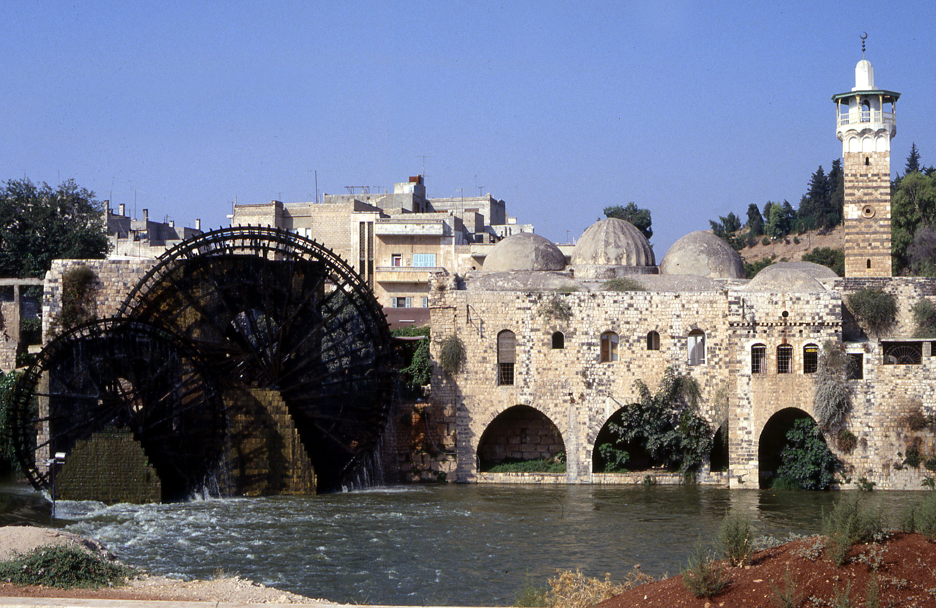 Waterwheels in Hama, Syria